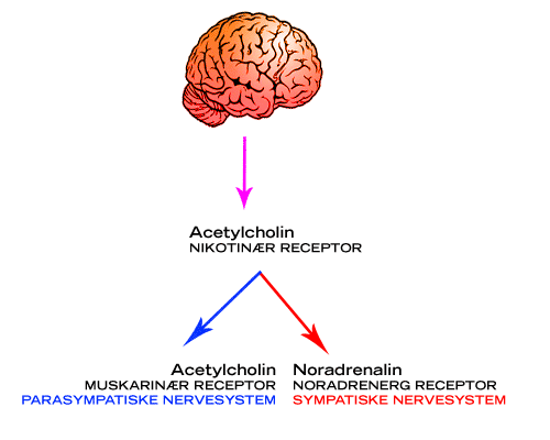 Autonomic nervous system